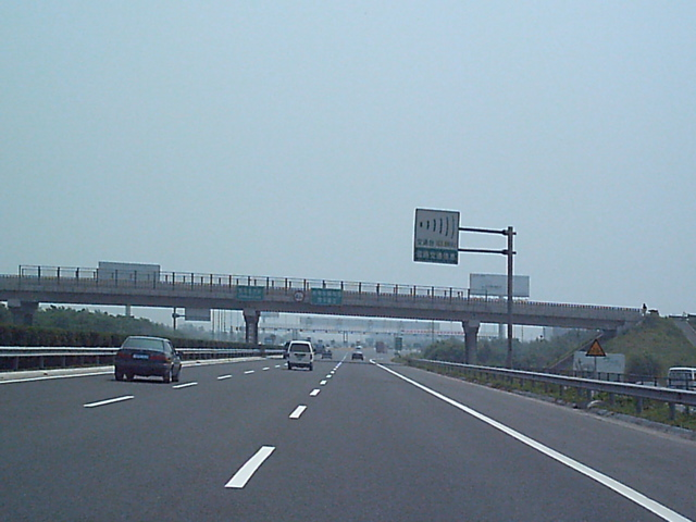 Jingshen Expressway.